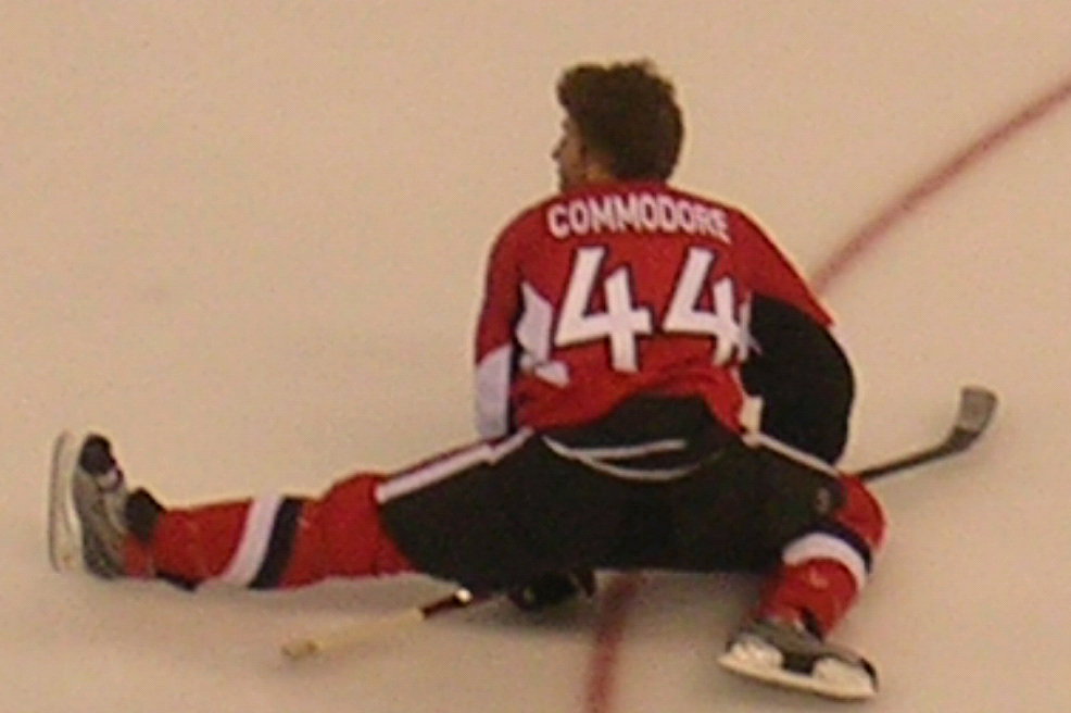 Commodore